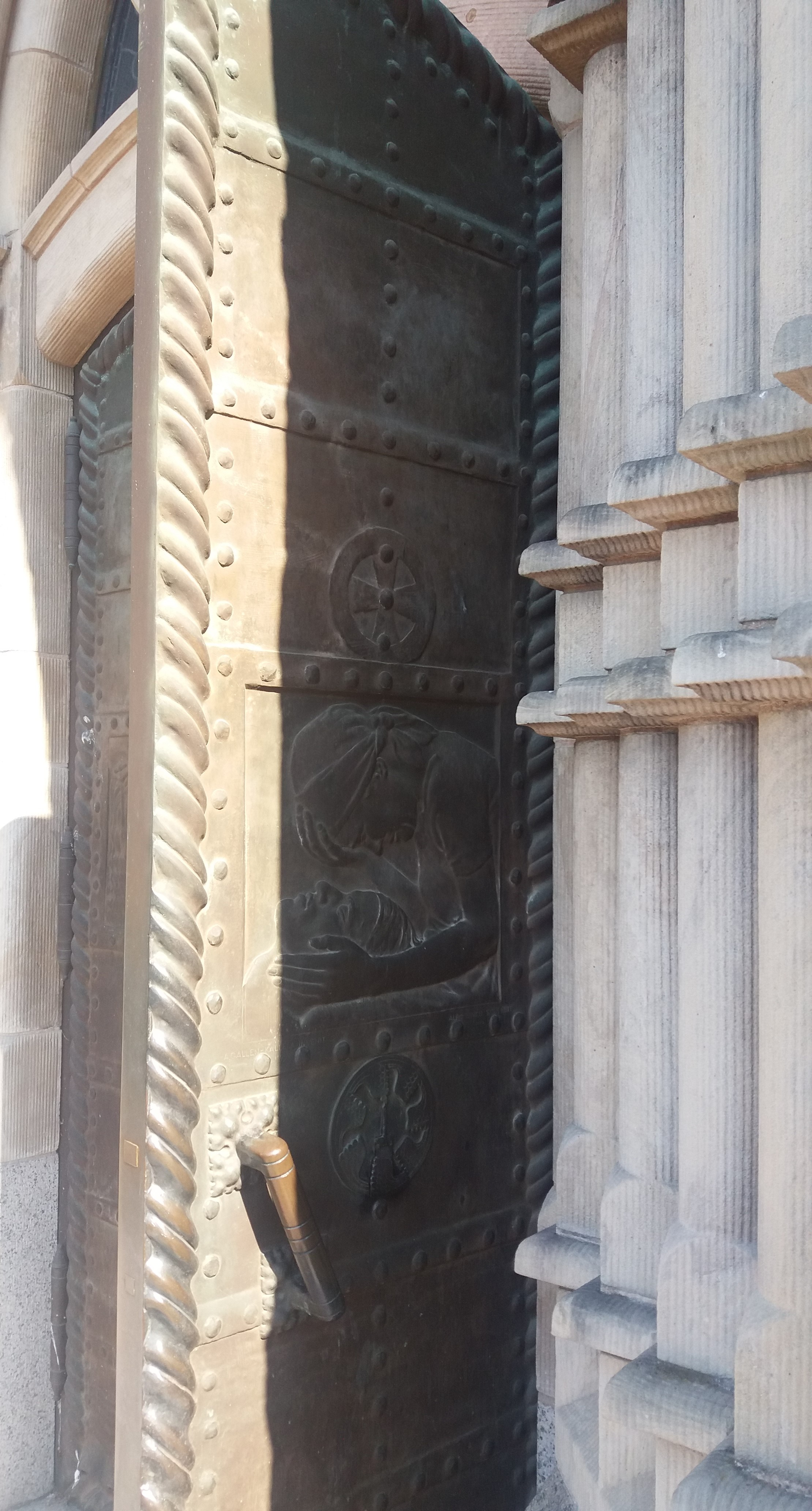 A door of the Juselius mausoleum, Pori, Finland. Reliefs by the sculptor Alpo Sailo.